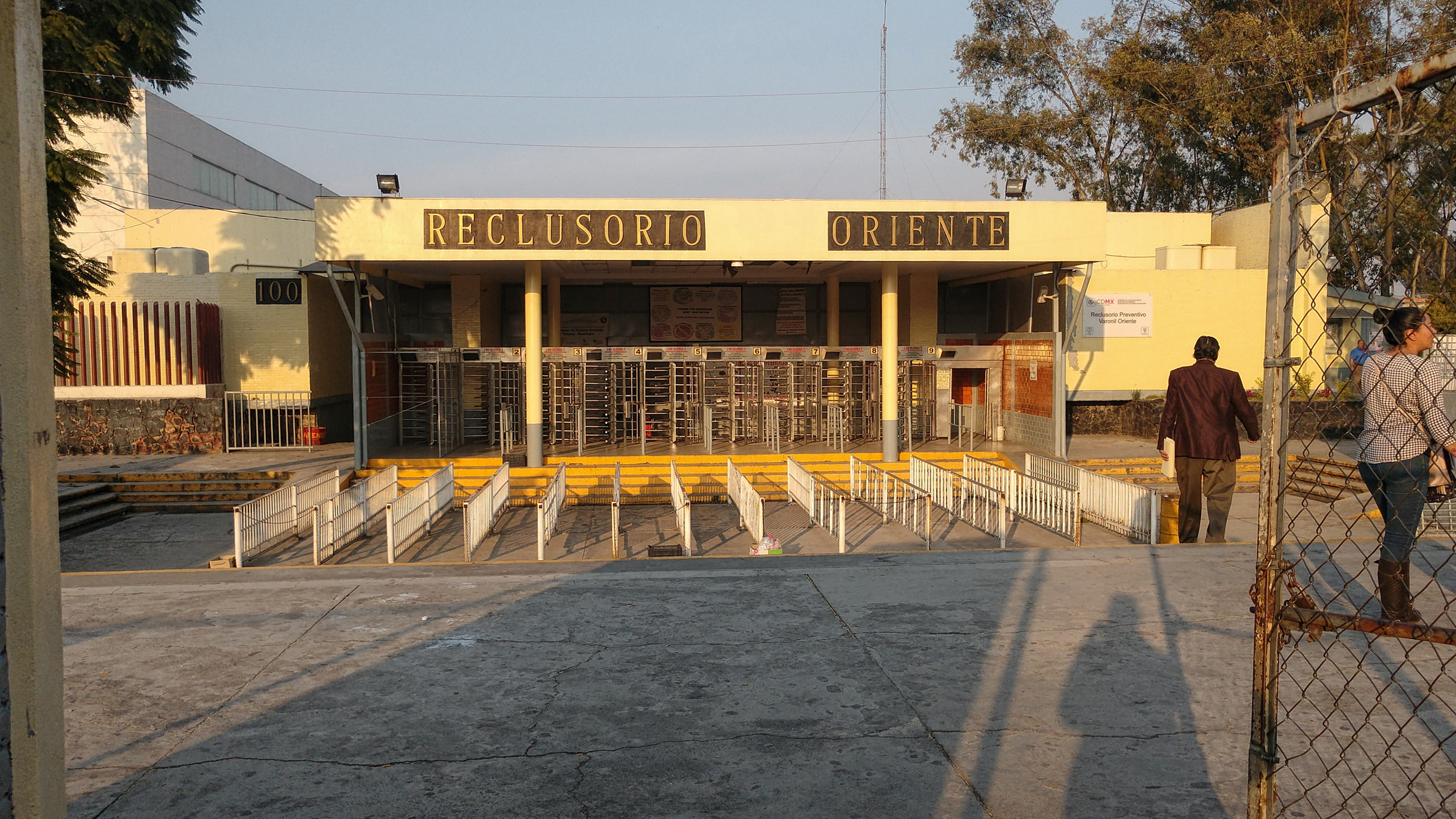 Access to the Reclusorio Preventivo Varonil Oriente (East Men's Preventive Prison), San Lorenzo Tezonco, Iztapalapa delegation